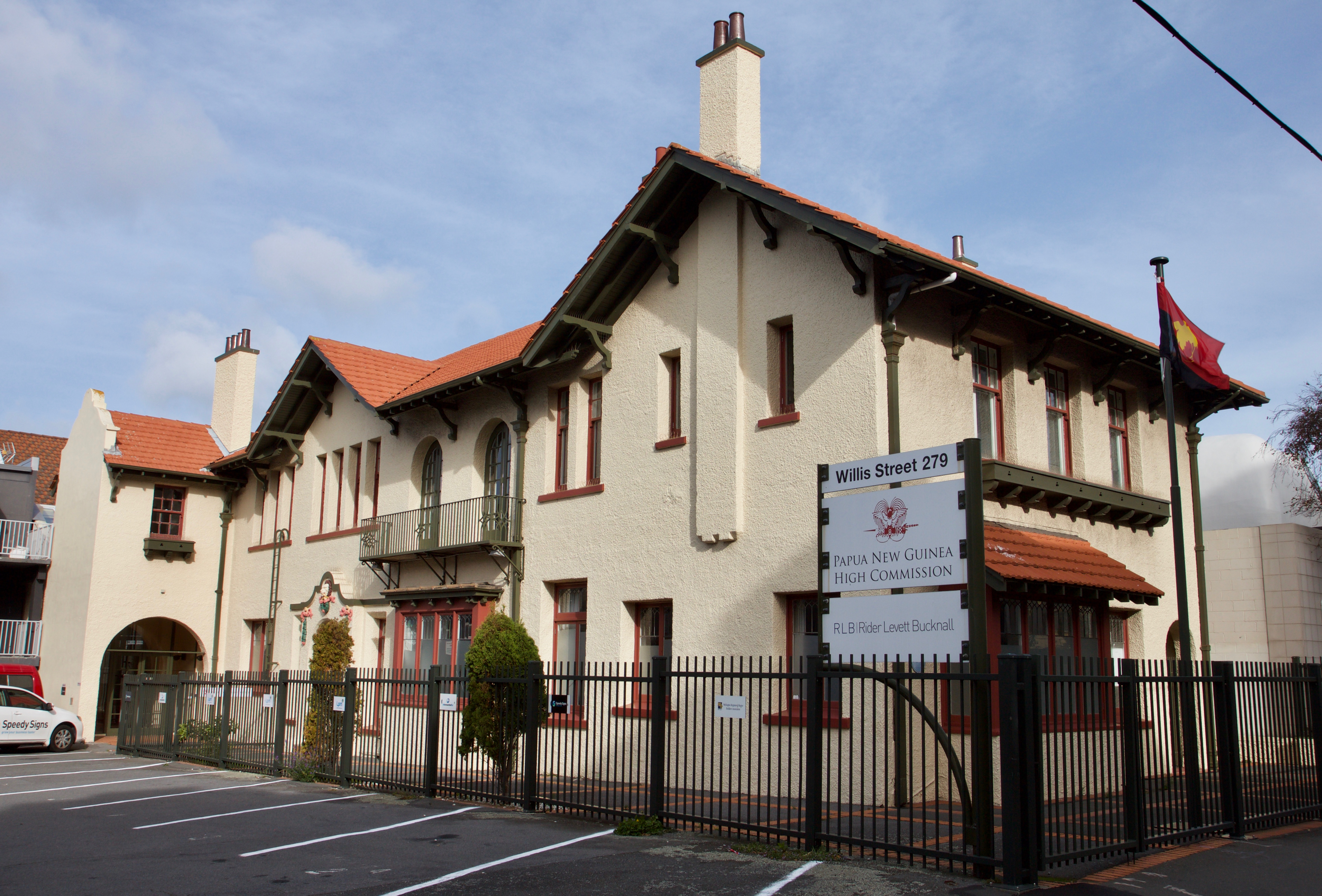 This is a photograph of Appraisal House at 279 Willis Street, Wellington, New Zealand. As at April 2020, this building serves as the Papua New Guinea High Commission.